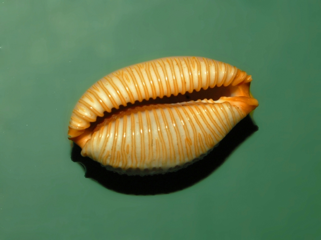 Nucleolaria nucleus